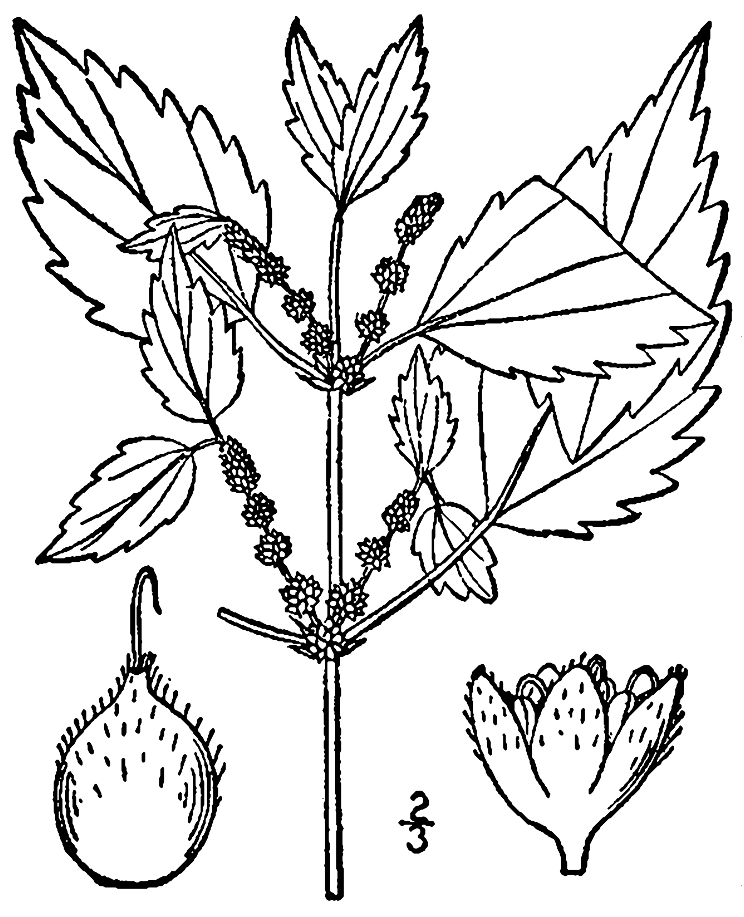 Boehmeria cylindrica (L.) Sw. - smallspike false nettle